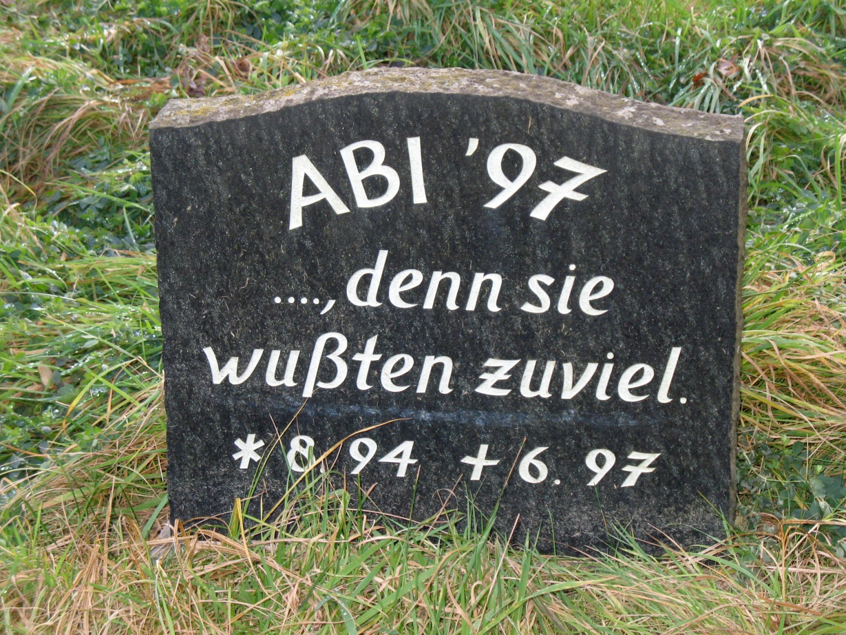 "Gravestone" as Senior prank of the Abitur class 1997 of the Mies van der Rohe school in Aachen, Germany